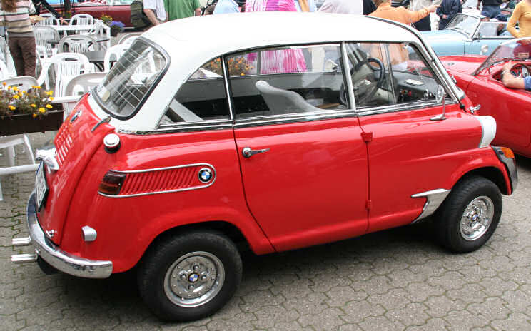 the rear-side view of a BMW 600.